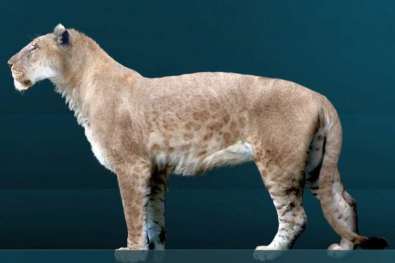 Graphical reconstruction of Panthera leo atrox the "American lion" based on bony structure and paleontological texts